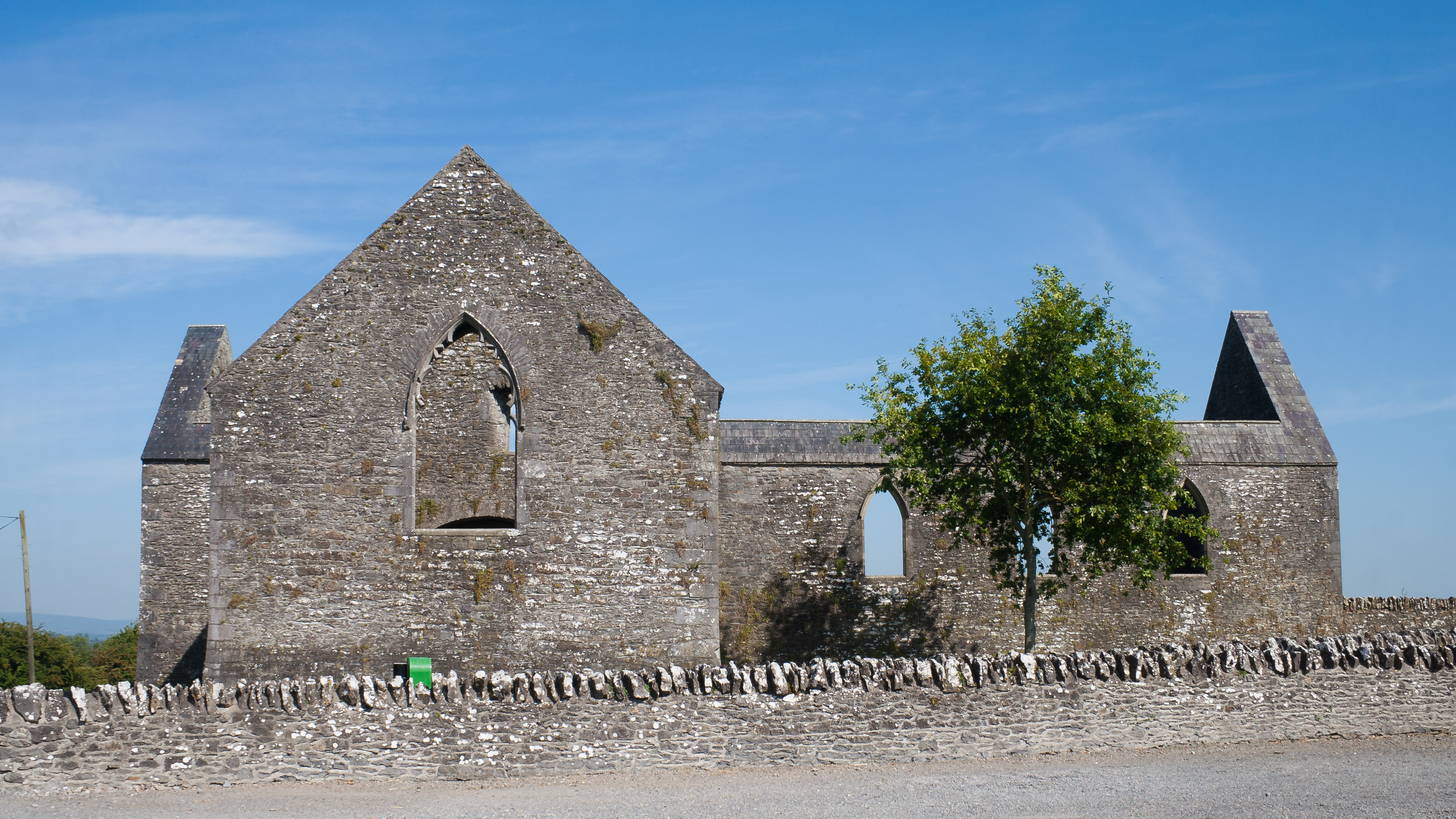 South view of the Dominican Priory of St. Canice in Aghaboe with O'Foelain's Chapel on the south side in the front and the aisleless church, 15th century. The Gothic tracery of the windows were removed in 1773.